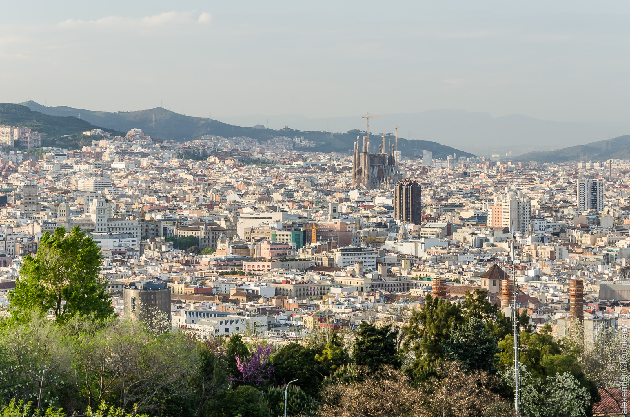 Panorama of Barcelona from Montjuic (2014)